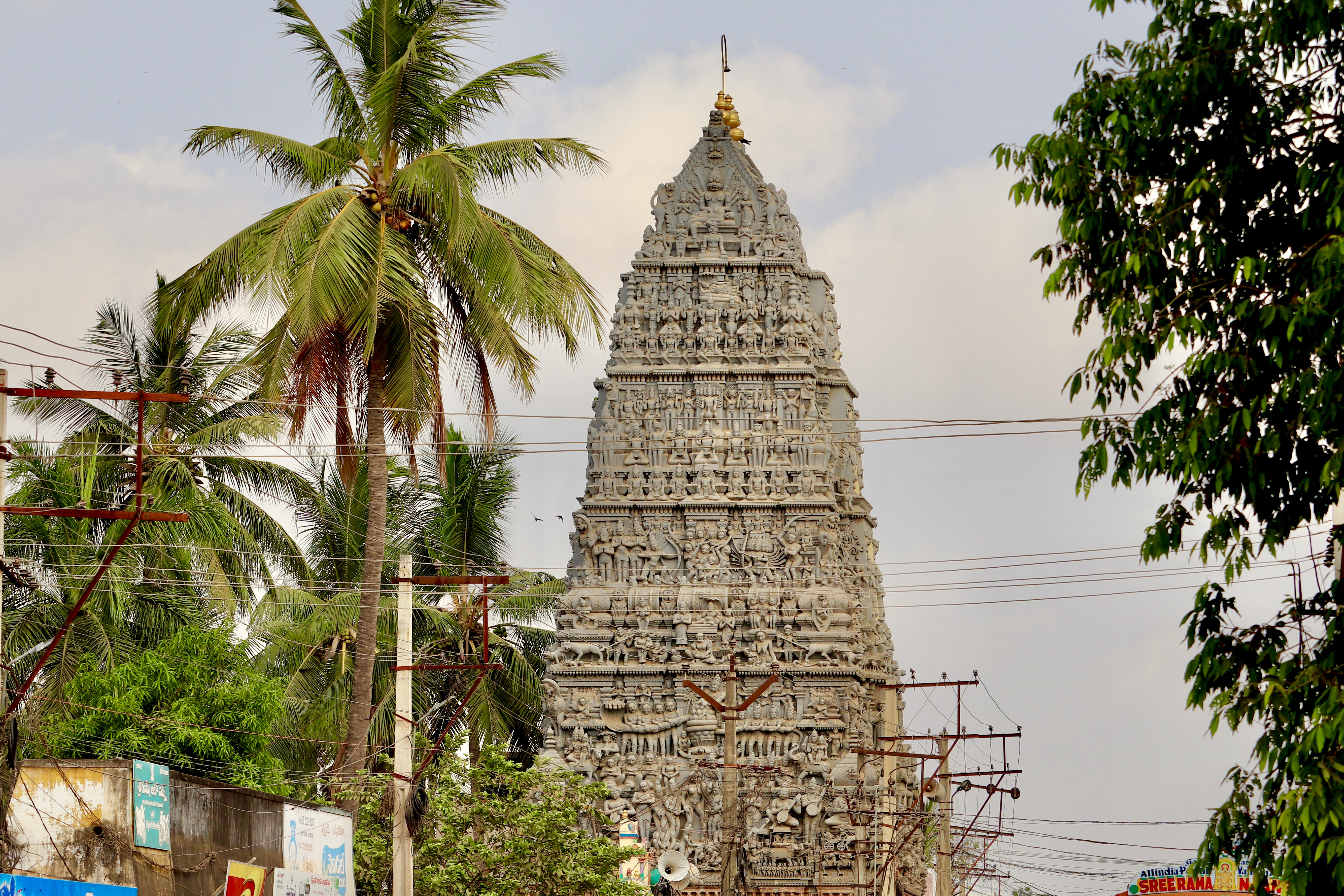 10th century A.D. Chennakesava temple in Eluru